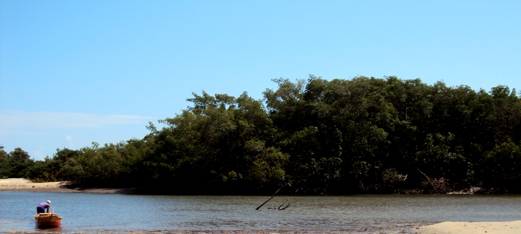 Mangroves at the Peixe-Boi Project in Paraíba State, northeastern Brazil.